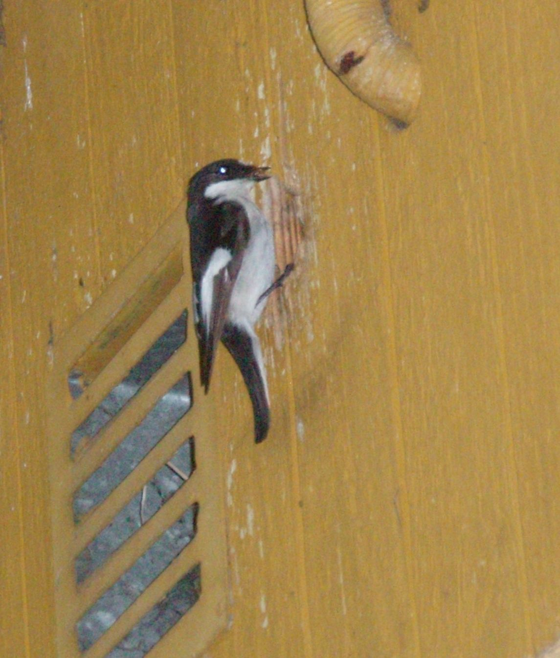 Male Ficedula Hypoleuca returning to nest with his catch